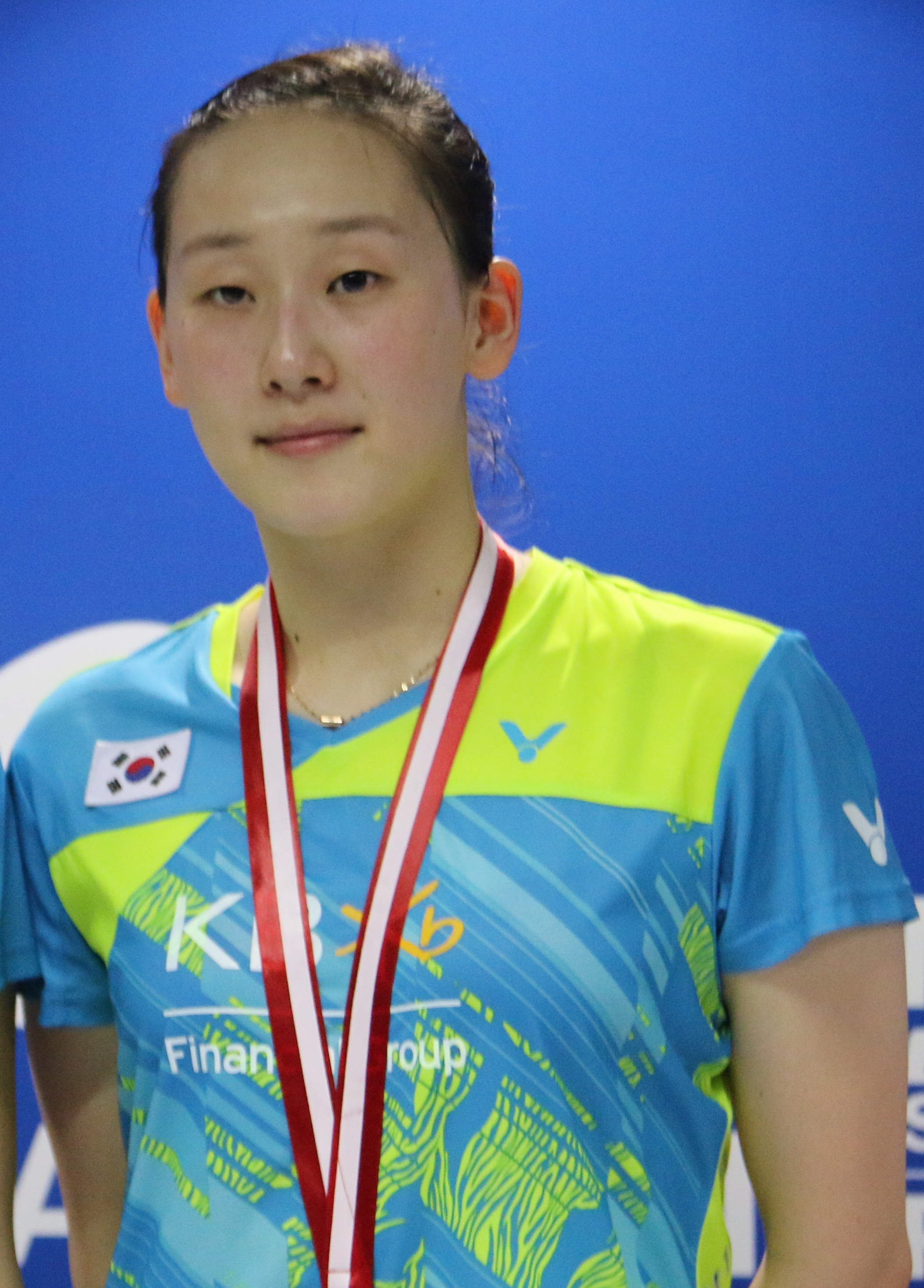 Chang Ye Na and Lee So Hee at Indonesia Open 2017 post mach press conference